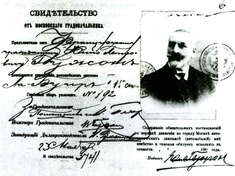 1908 driving licence issued in Moscow, Russia to a French citizen, owner of steel mill in Moscow Jules Guznon (verify actual French spelling, here it's transliterated back from Russian). The license is valid only for driving a specific La Buire 15 h.p. сar. Guzhon had another licence to drive a 20 h.p. Westinghouse car.